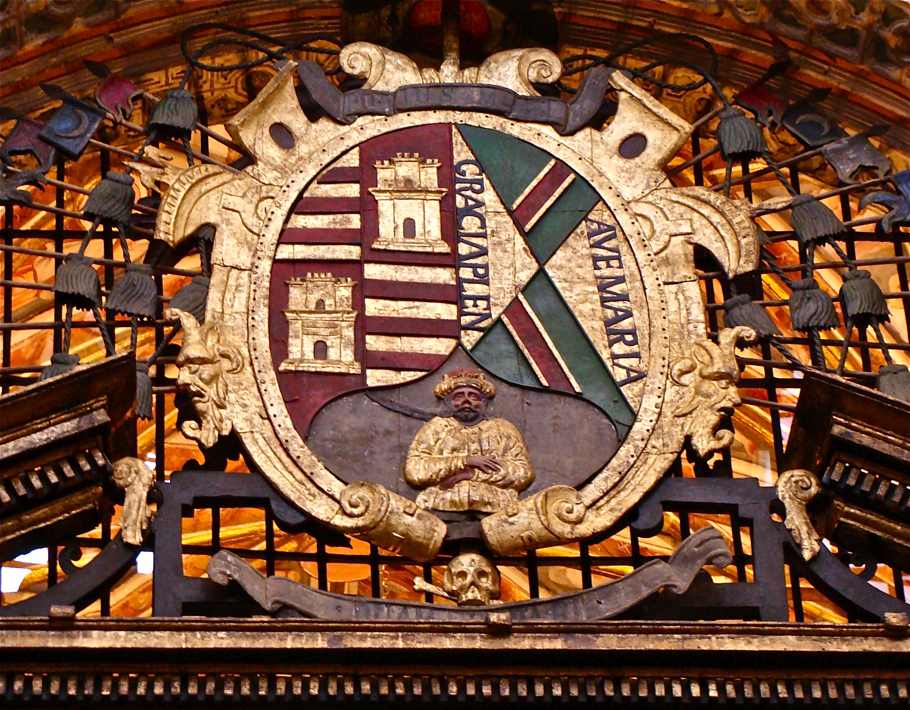 unidentified COA in the Cathedral (former mosque) of Cordoba, Spain